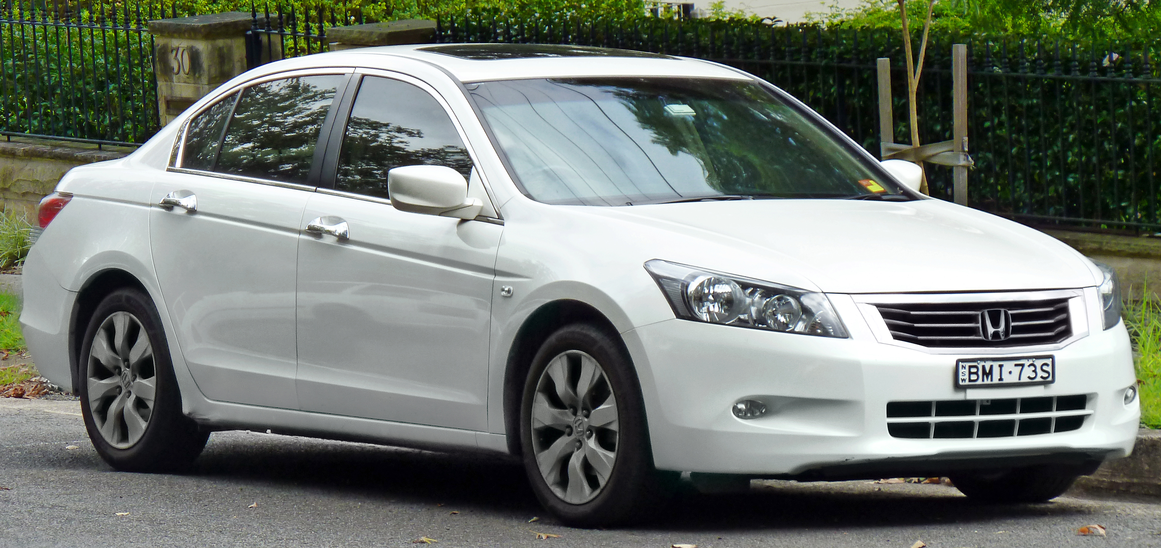 2008–2011 Honda Accord VTi-L sedan. Photographed in Killara, New South Wales, Australia.